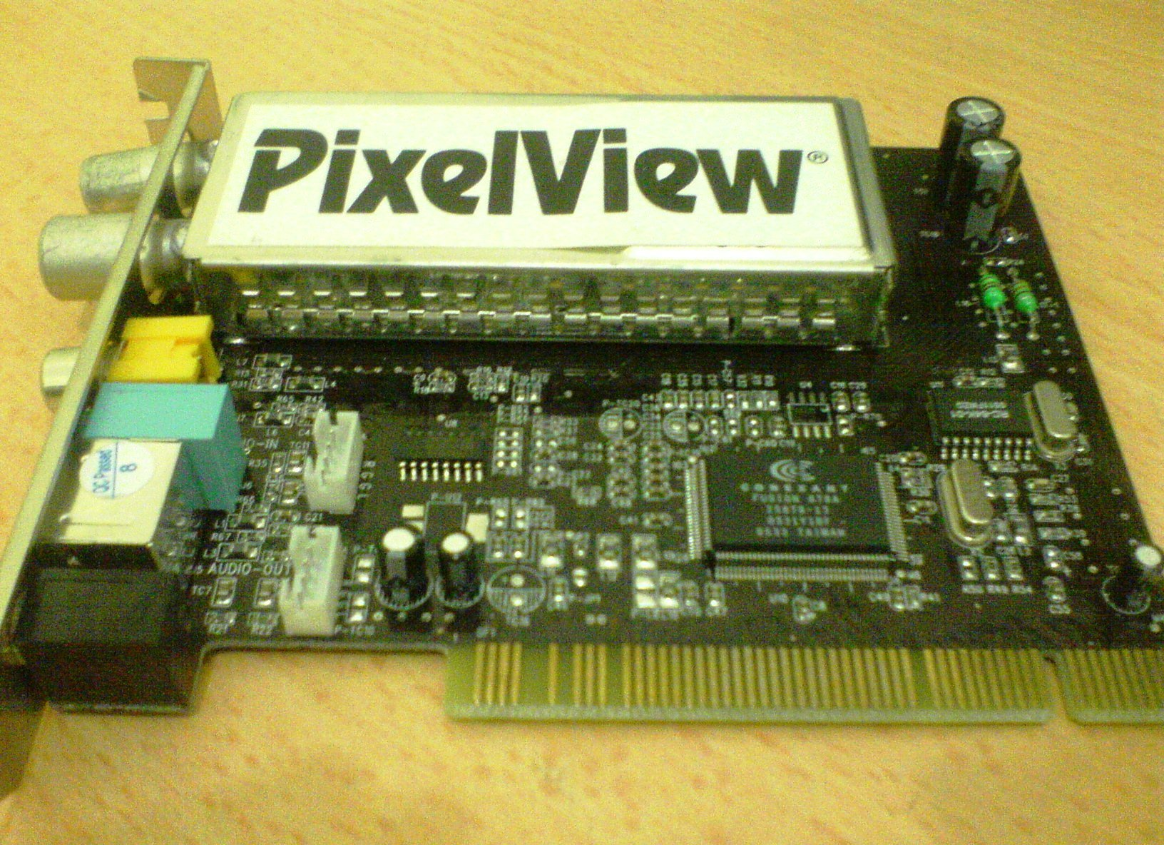 PixelView TV card